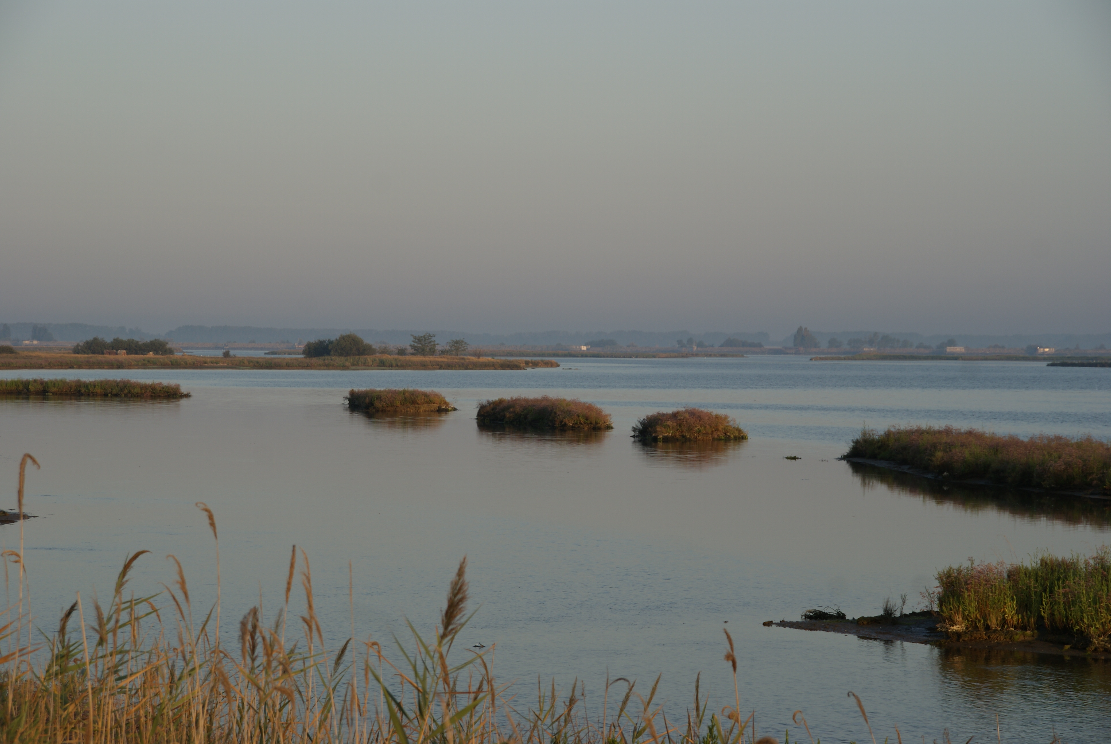 Valli di Comacchio, Valle Fatibello